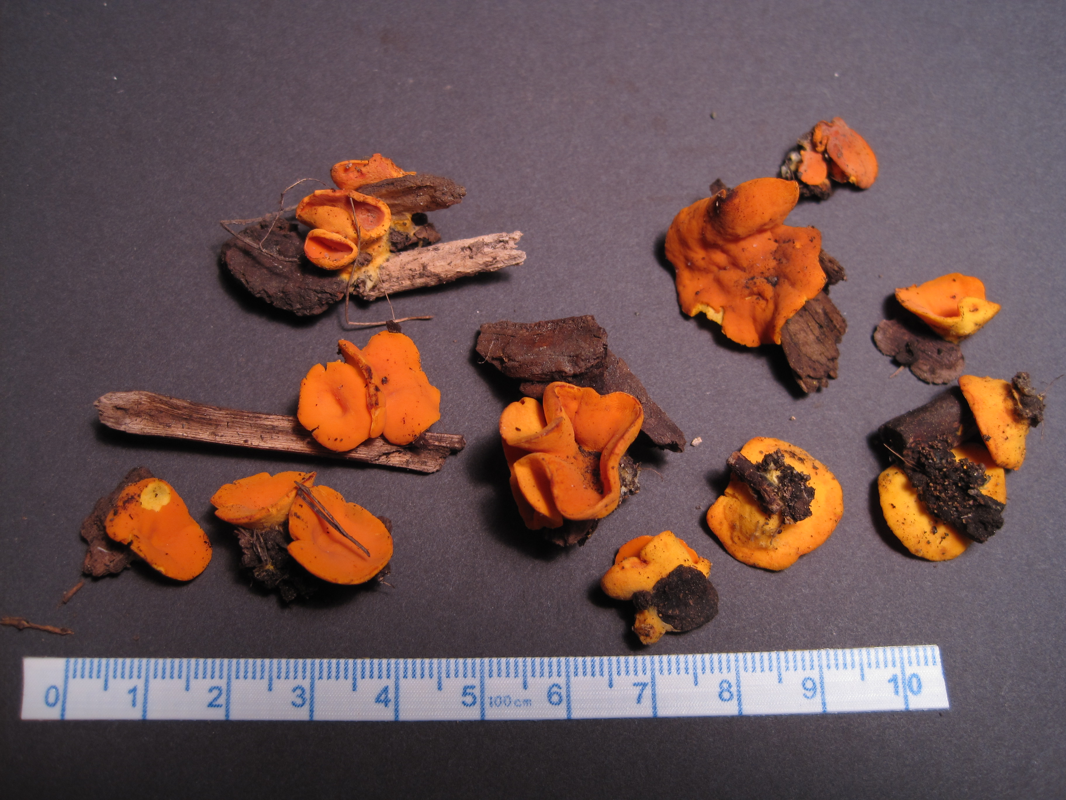 Fruitbodies of the pezizalean fungus Acervus epispartius. Collected in Boston, Massachusetts, USA.